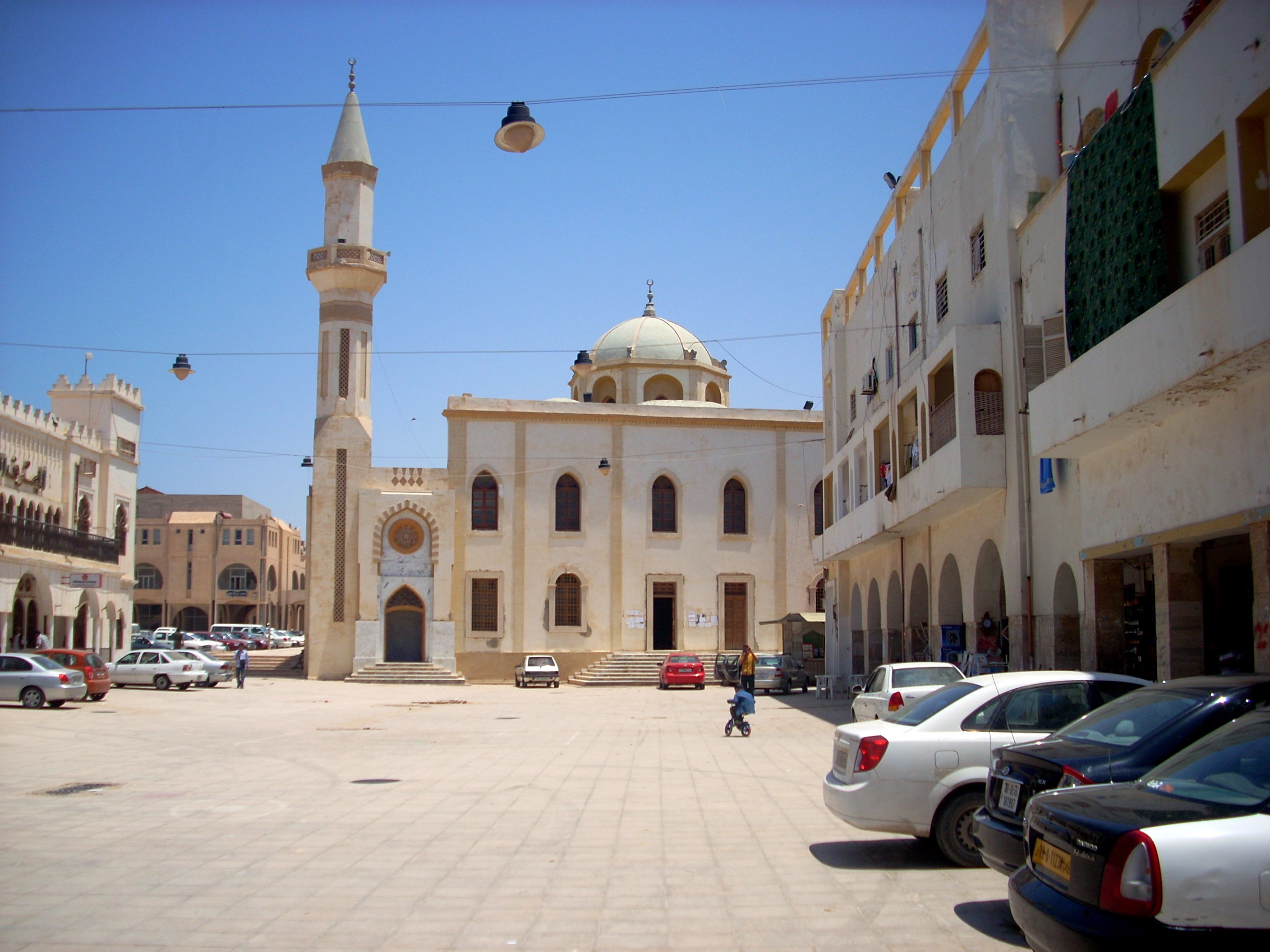 Huriya Sqaure or Baladiya Square in Benghazi's Italian Quarter houses the former Municipality Building (left) and the Atiq Mosque (centre).